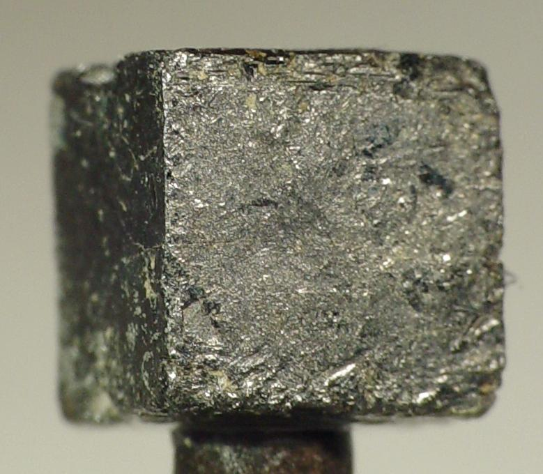 Lueshite Locality: Lueshe Mine, Kivu, Democratic Republic of Congo (Zaïre) (Locality at ) Size: thumbnail, .6 x .6 x .6 cm Lueshite Exceptional cube of the rare niobium-containing species Lueshite, with good metallic luster and typical back-silver color. What makes this so grand is the size and, most especially, the sharpness of the crystal. I am told that these came out only sporadically, and mostly 20-plus years ago. This is the largest I have had for sale out of several over the years. It is a significant example for the species. .6 x .6 x .6 cm